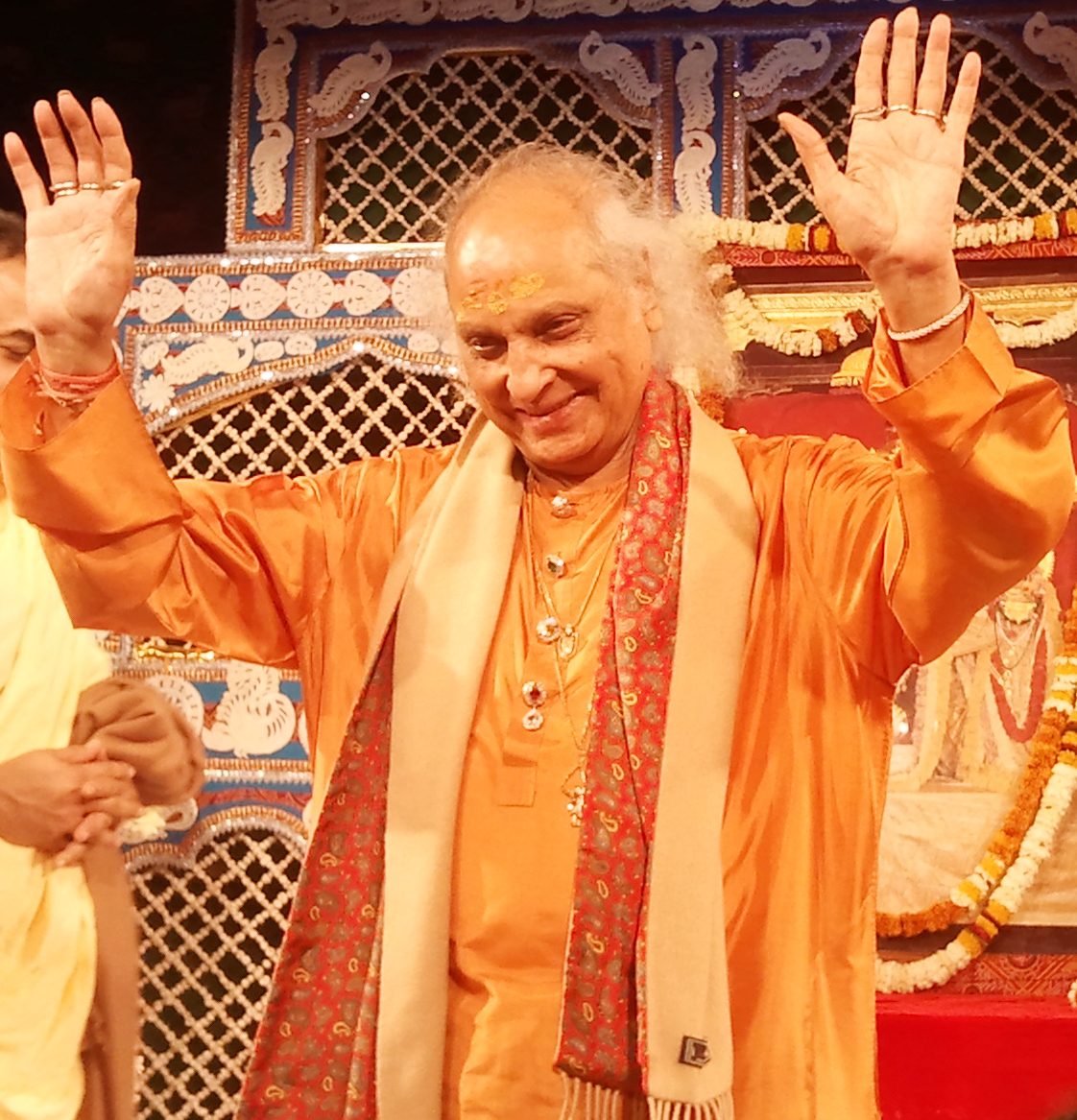 This is a photograph of Pandit Jasraj at Satsang Bhawan of Govind Dev Ji Temple in Jaipur. Panditji gave a live performance on that day.